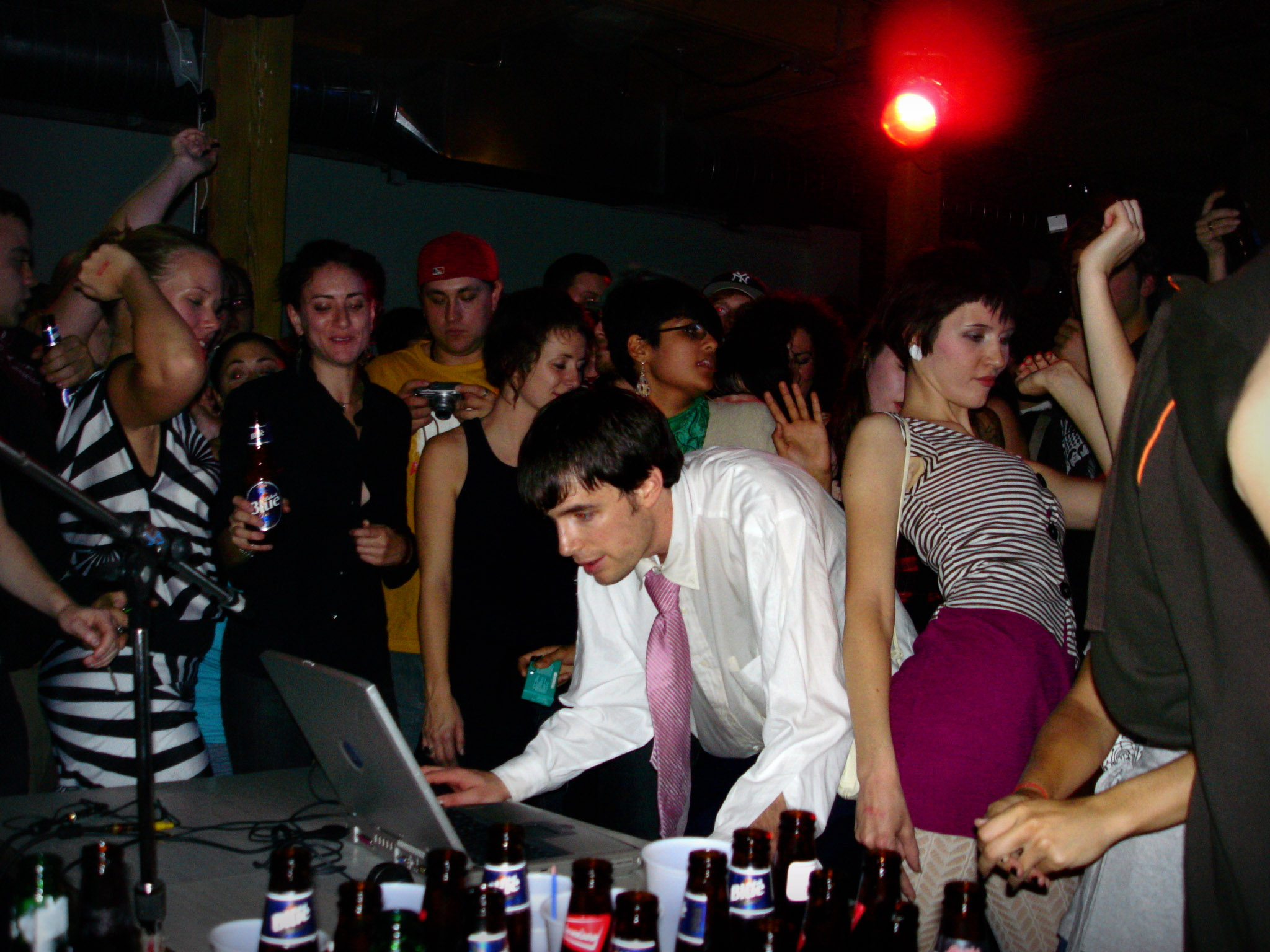 Girl Talk: One Geek, one laptop, a crush of screaming girls and the future face of music? (Original title)